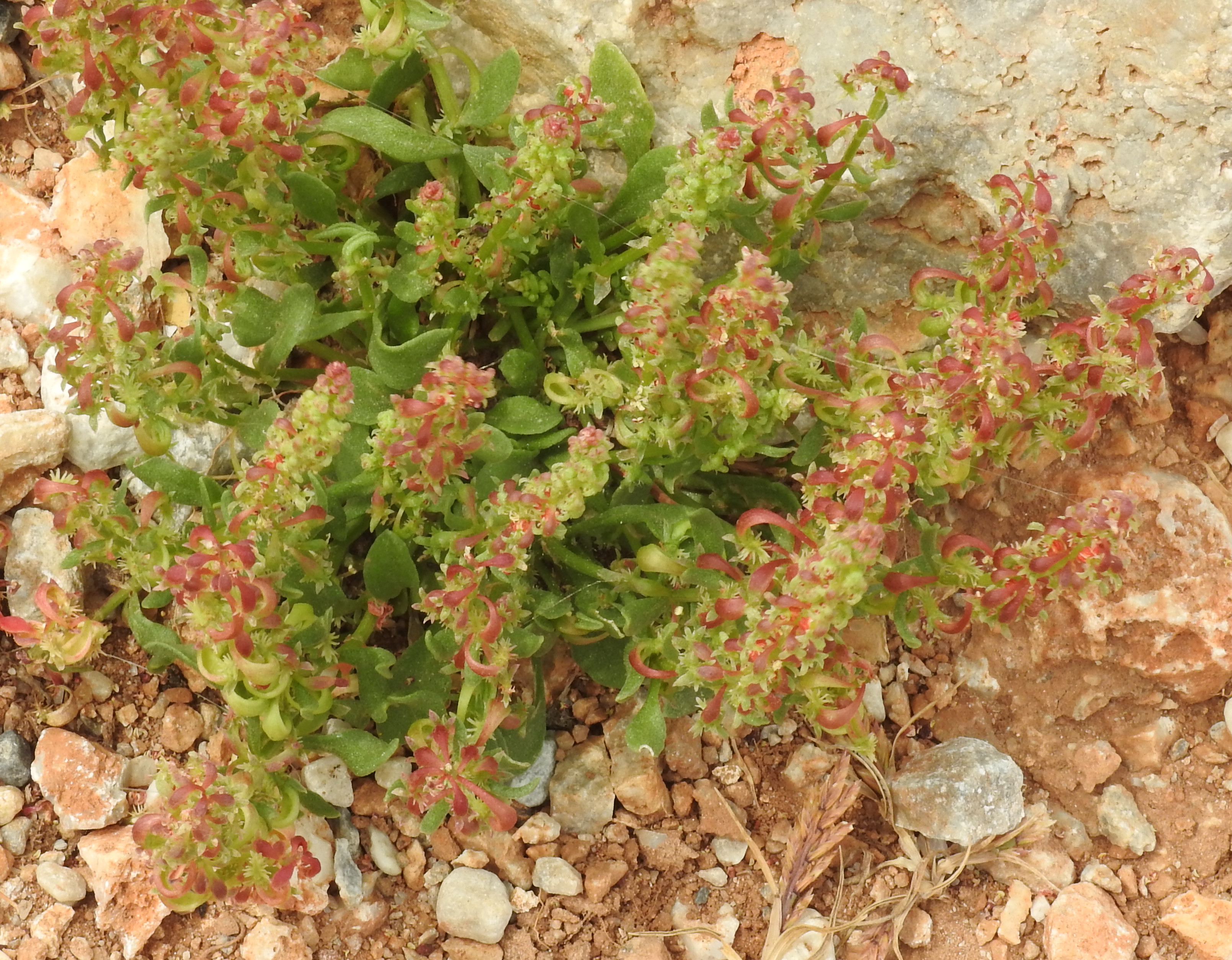 Horned dock (Rumex bucephalophorus subsp. gallicus var. aegaeus), Akrotiri peninsula near Chania, Crete